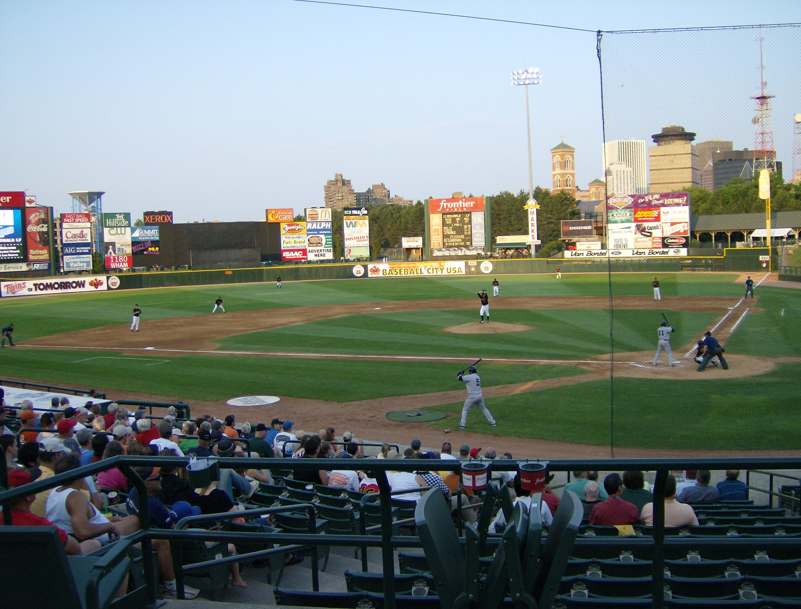 View of Frontier Field, including the Rochester skyline to the southeast.